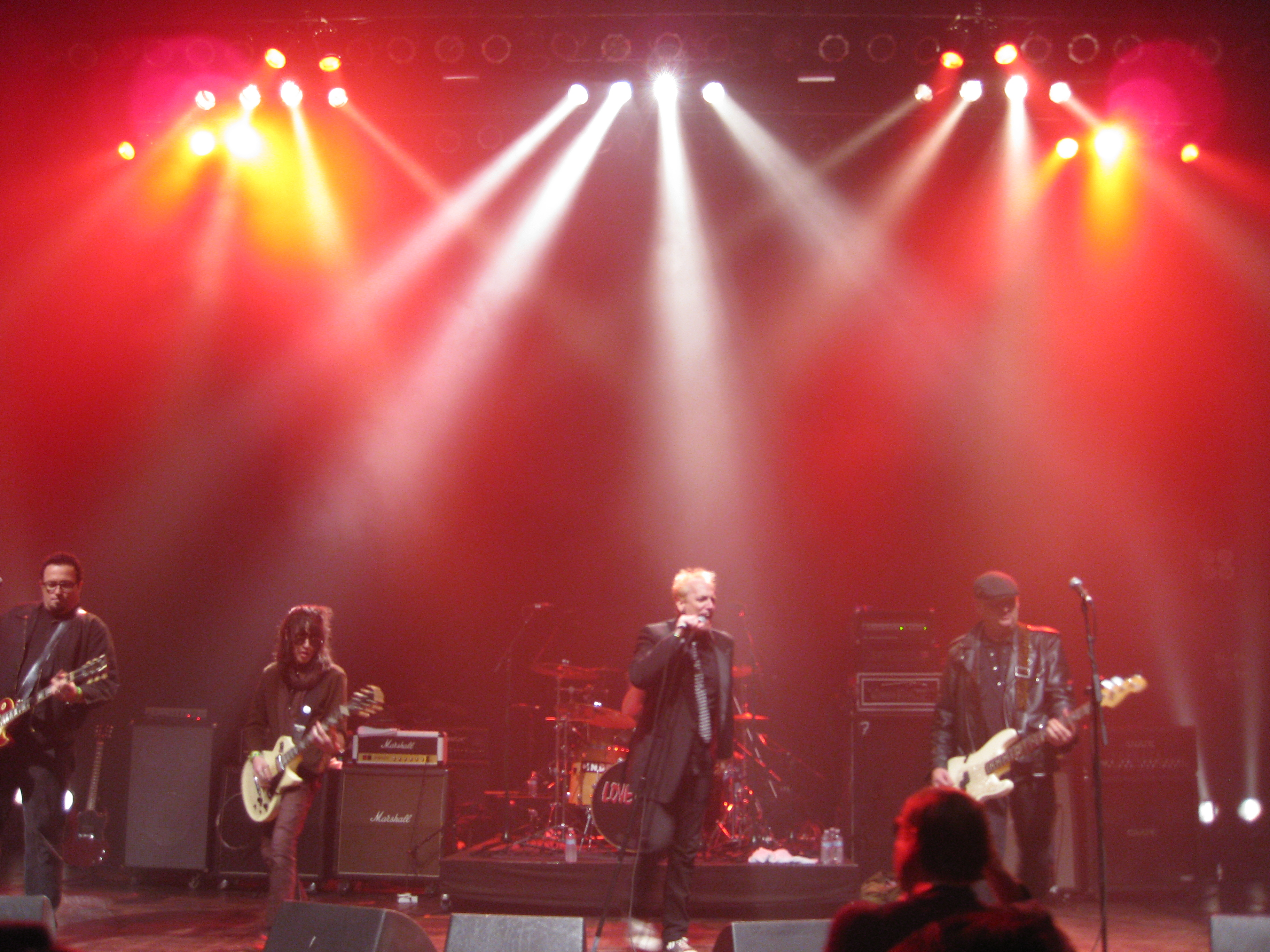 Shattered Faith performing December 18, 2011 at the Santa Monica Civic Auditorium in Santa Monica, California as part of the GV30 event.